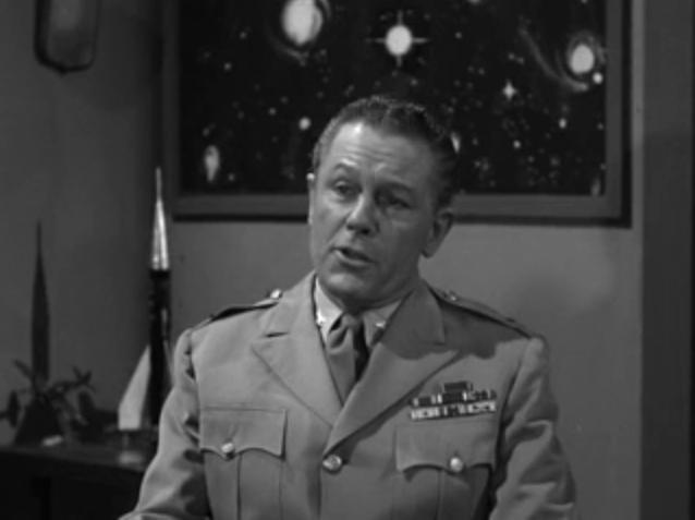 Tom Keene as Col. Tom Edwards in Plan 9 from Outer Space